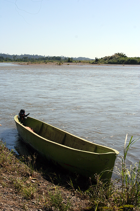 View of the Sixaola River during the beginning of the dry season in December